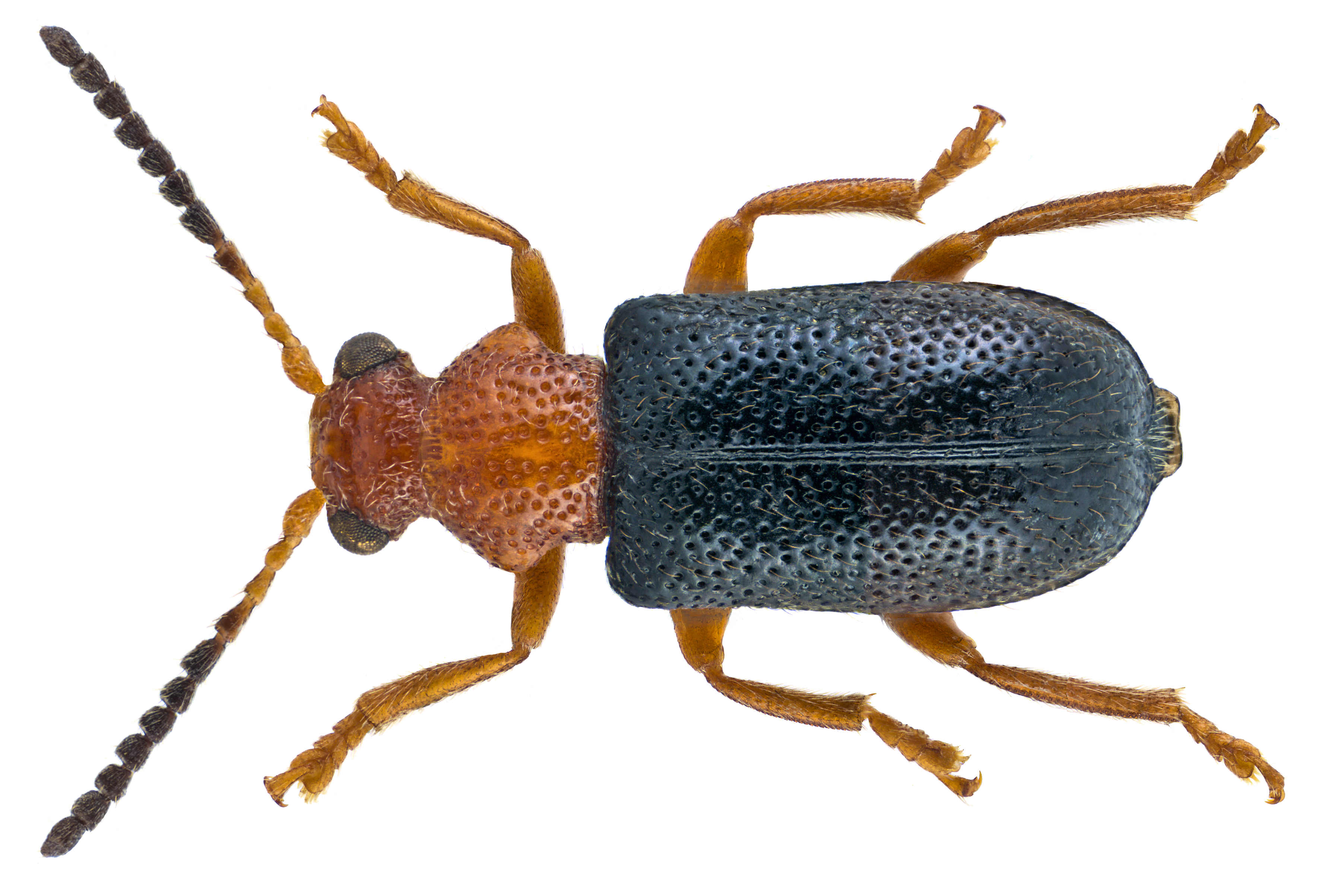 Family: Chrysomelidae Size: 3,7 mm (3.3 to 3.8 mm) Origin: Europe Ecology: on Salix, Populus and Corylus spp. Location: Germany, Bavaria, Upper Franconia, Münchberg /Hildbrandsgrün leg.det. U.Schmidt, 15.VI.2004 Photo: U.Schmidt, 2015